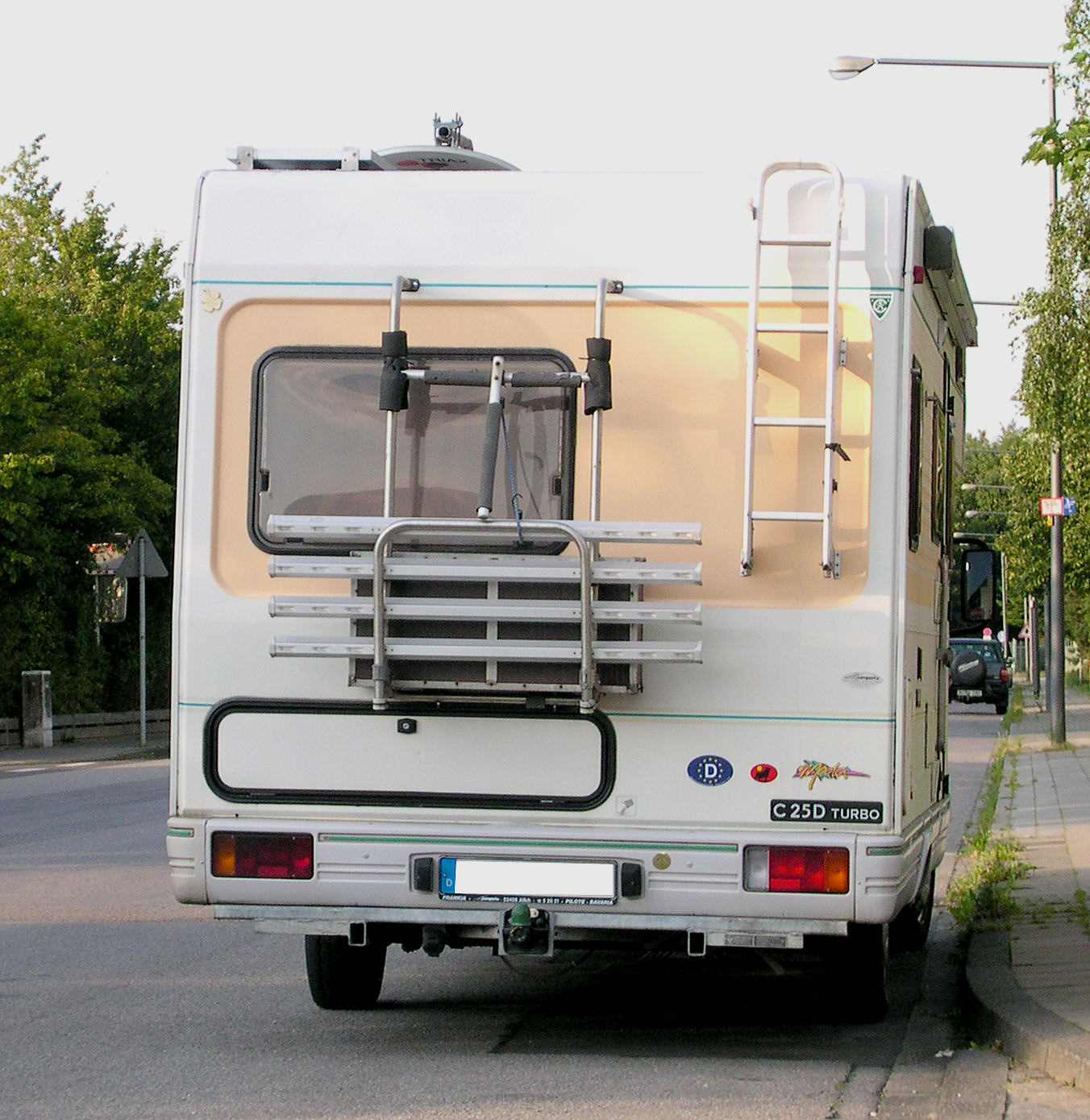 Pilote recreational vehicle «R590» using a Citroën C 25 D